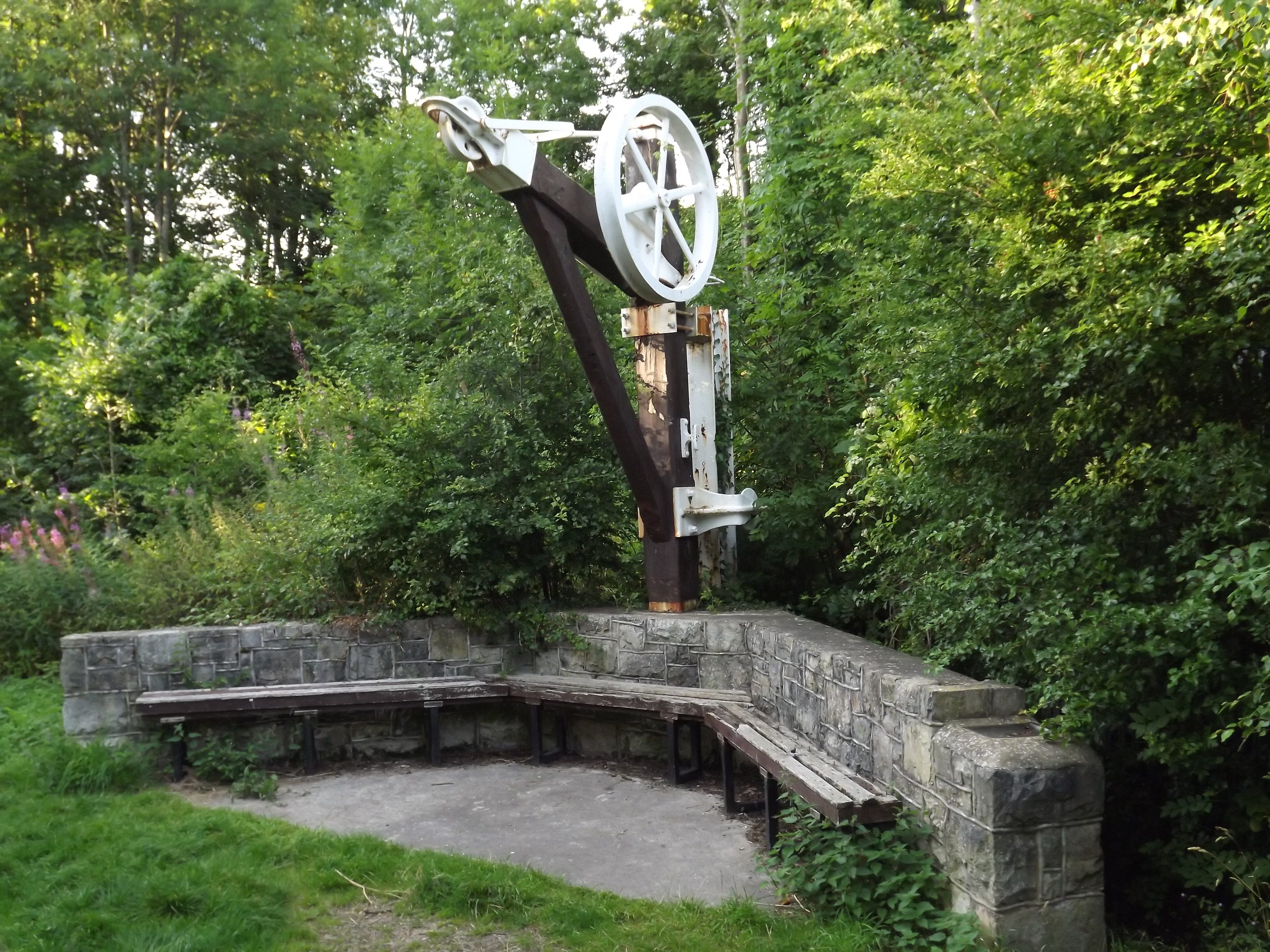 The crane from Dyserth Railway Station taken on 17th August 2015